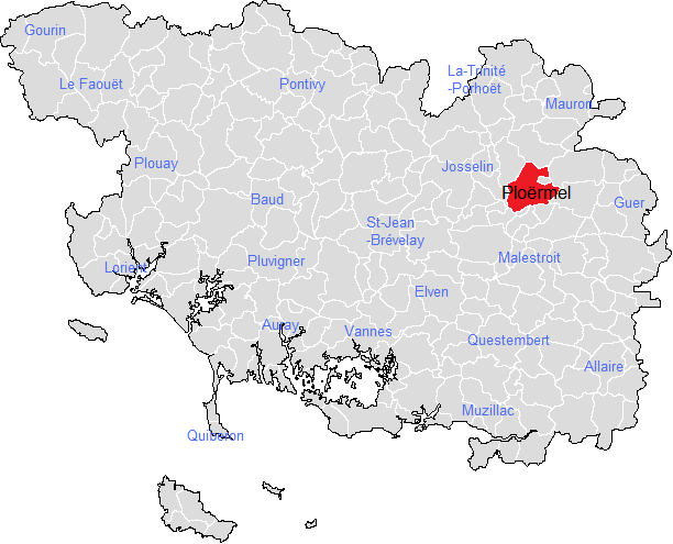 placement Ploërmel in departement Morbihan